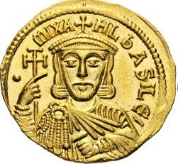 Michael I Rhangabe, with Theophylactus. 811-813. Solidus (Gold, 4.40 g 6). MIXAHL bASILE’ Bearded bust of Michael I facing, wearing chlamys and crown with cross, and holding a cross potent in his right hand and an akakia in his left; to left, pellet. Rev. ΘEOFVLACTOS DESP’E Beardless bust of Theophylactus facing, wearing loros and crown with cross, and holding a globus cruciger in his right hand and a cross tipped scepter in his left. DOC 1b. SB 1615. Very rare. Very well struck and centered, an exceptional piece. Virtually as struck.